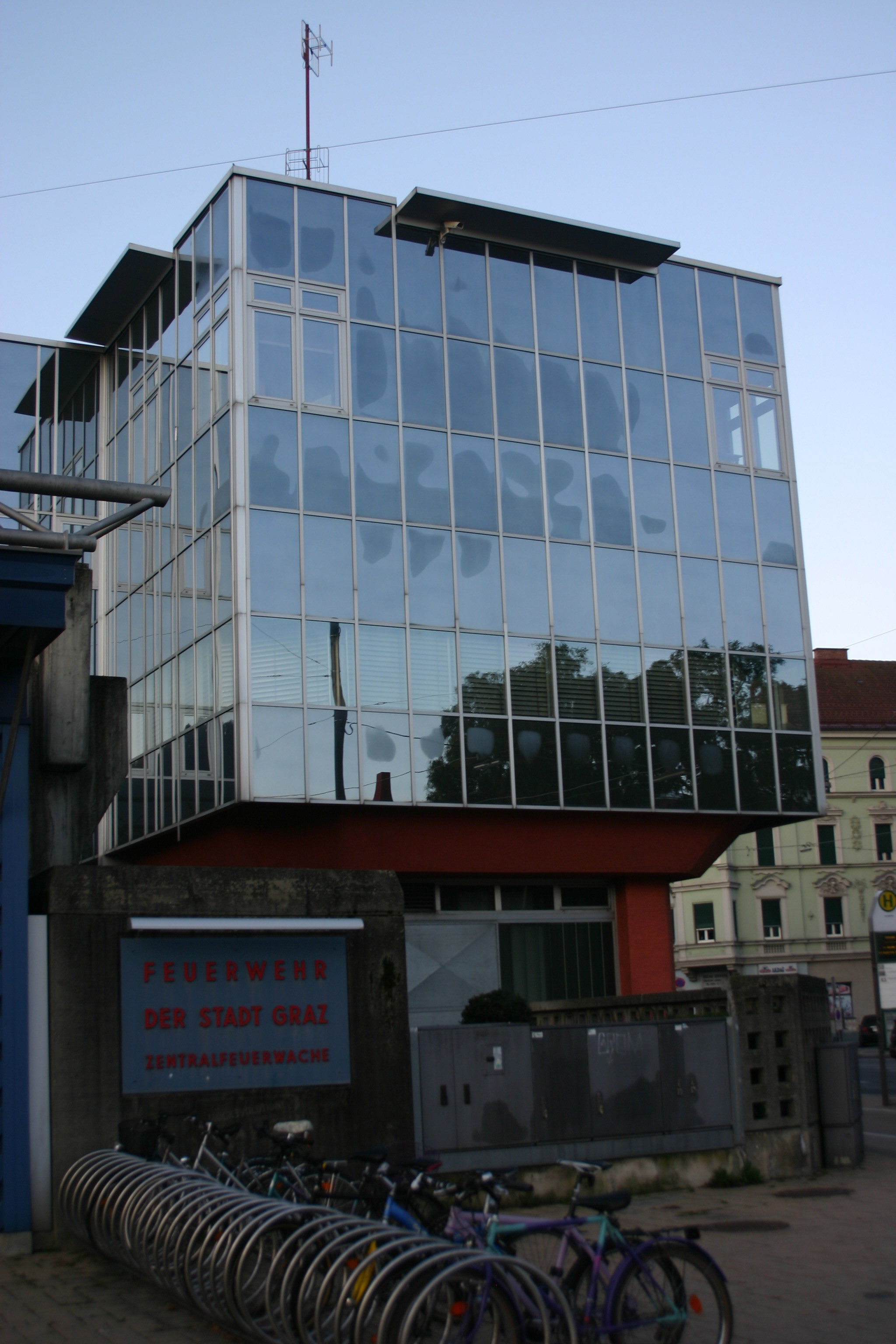 Central fire alarm office Graz, Lendplatz